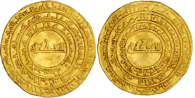 Dinar minted in 953-954 in Al-Mansuriya, Tunisia